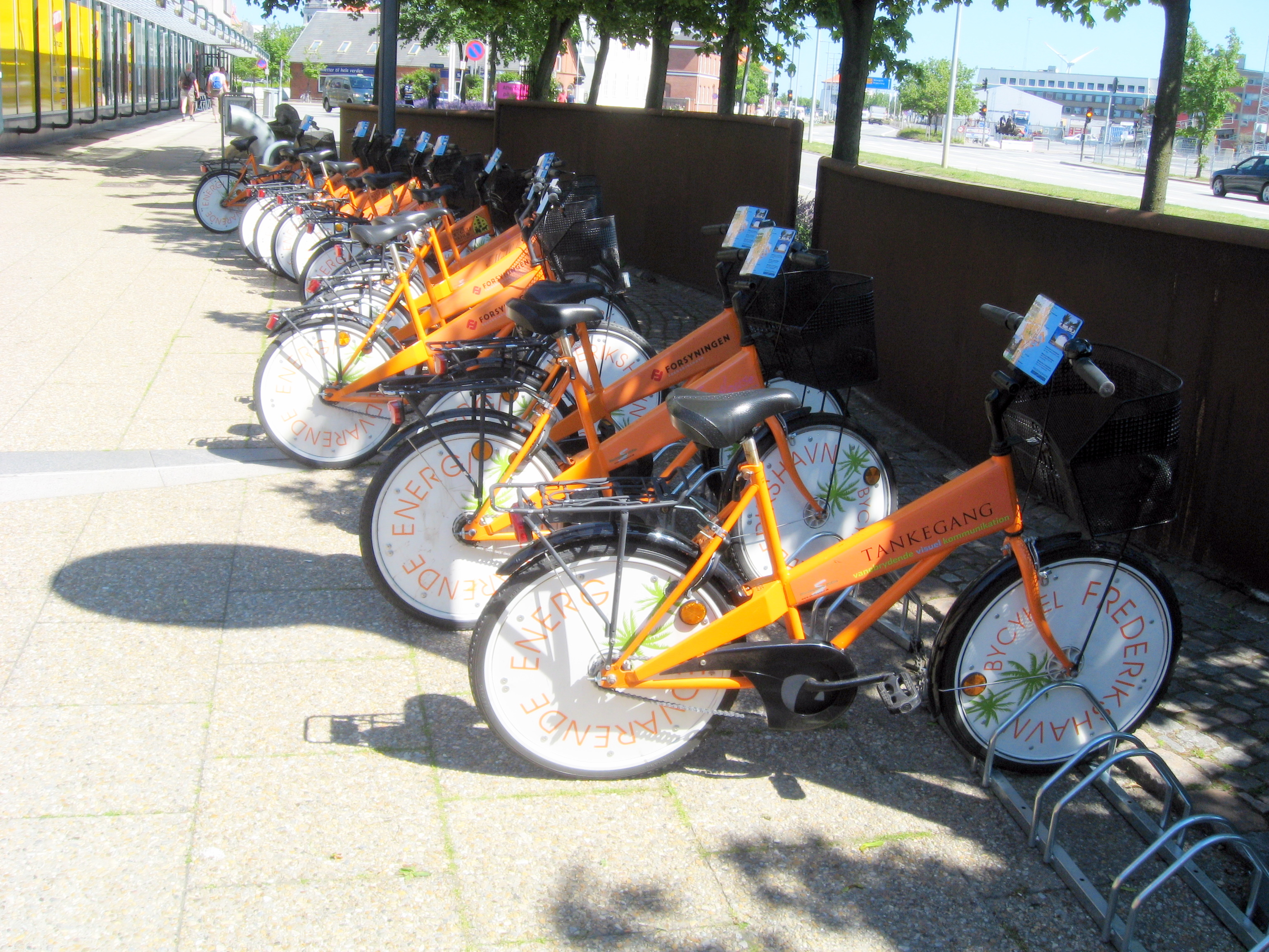 free citybikes / city bicycles in Frederikshavn, Denmark